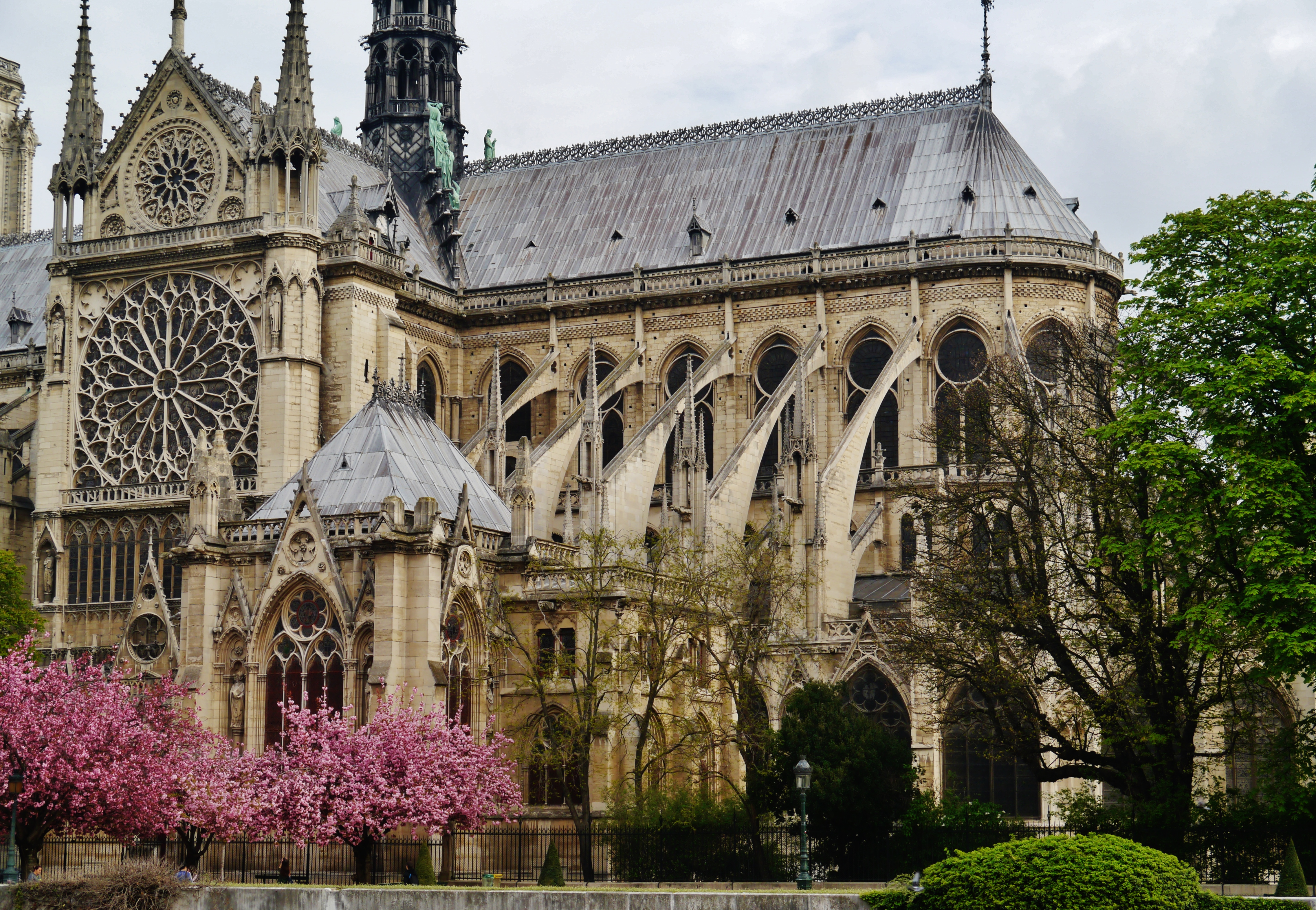 Choir of the Cathedral of Our Lady, Paris, Region of Île-de-France, France